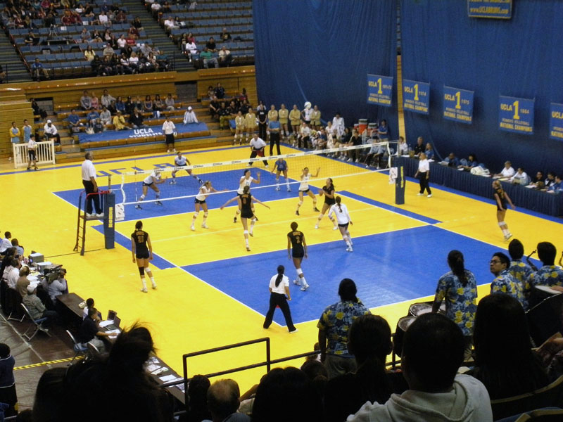 UCLA vs. USC at Pauley Pavilion, November 28, 2008